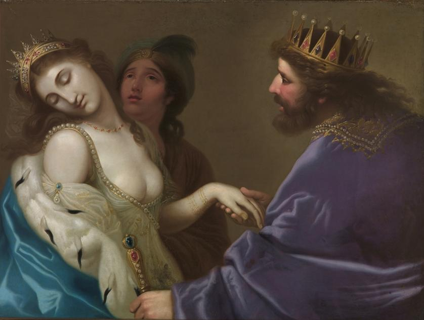 Franciszek Smuglewicz. Esther before Ahasuerus, 1778